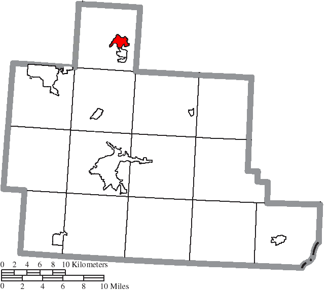 Map of the municipal and township boundaries of Athens County, Ohio, United States, as of the 2000 census, with the location of the village of Glouster highlighted. Township borders are shown only in unincorporated areas in order to differentiate incorporated and unincorporated areas more clearly.